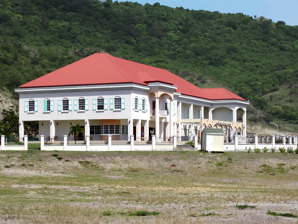 The Montserrat Cultural Center (2007) overlooks Little Bay. Beatles producter Sir George Martin raised funds for the construction.